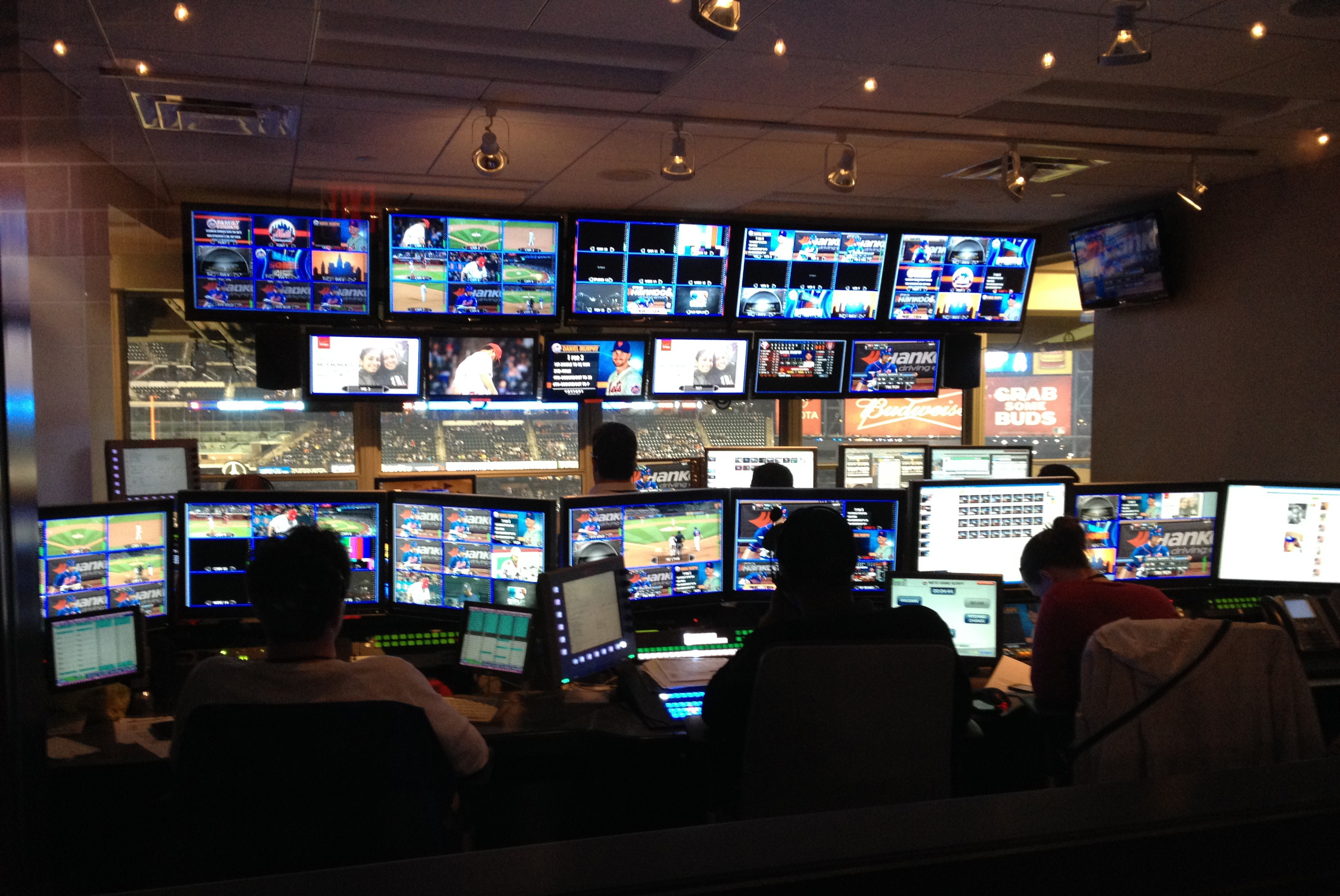 The control room at Citi Field on the fifth floor Concourse, right near the entrance to Caesa's Club, as seen on May 9, 2014. This photo was created by Luigi Novi. It is not in the public domain, and use of this file outside of the licensing terms is a copyright violation.